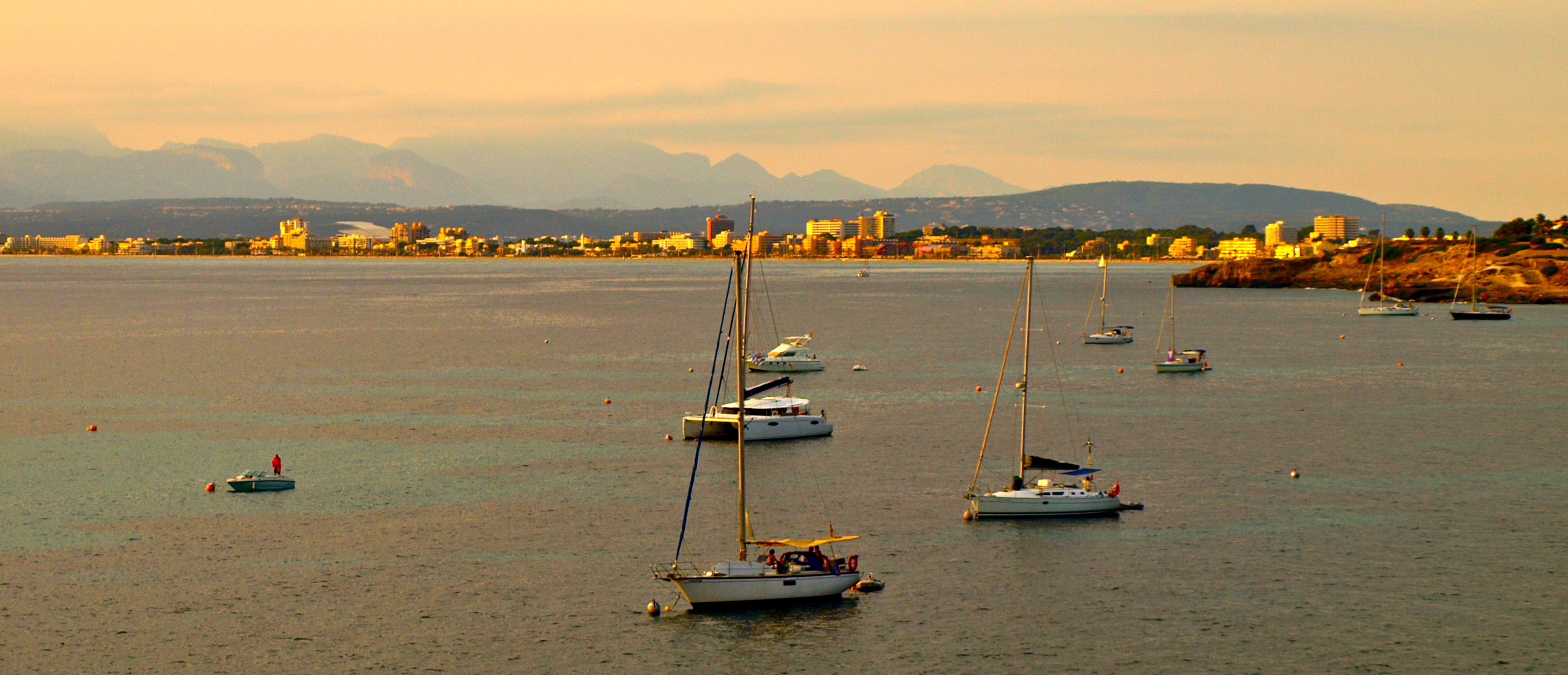 Arenal and Platja de Palma sight from Cala Blava Place Lloc/Place: Palma city hall